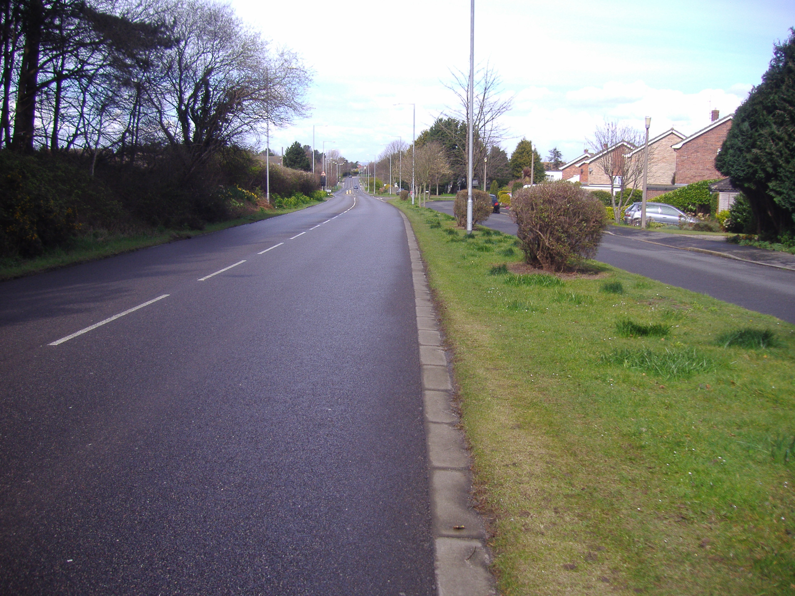 A Digital photograph of the A1082 road into Sheringham in Norfolk taken by Stavros1 (talk) 14:16, 6 April 2008 (UTC)